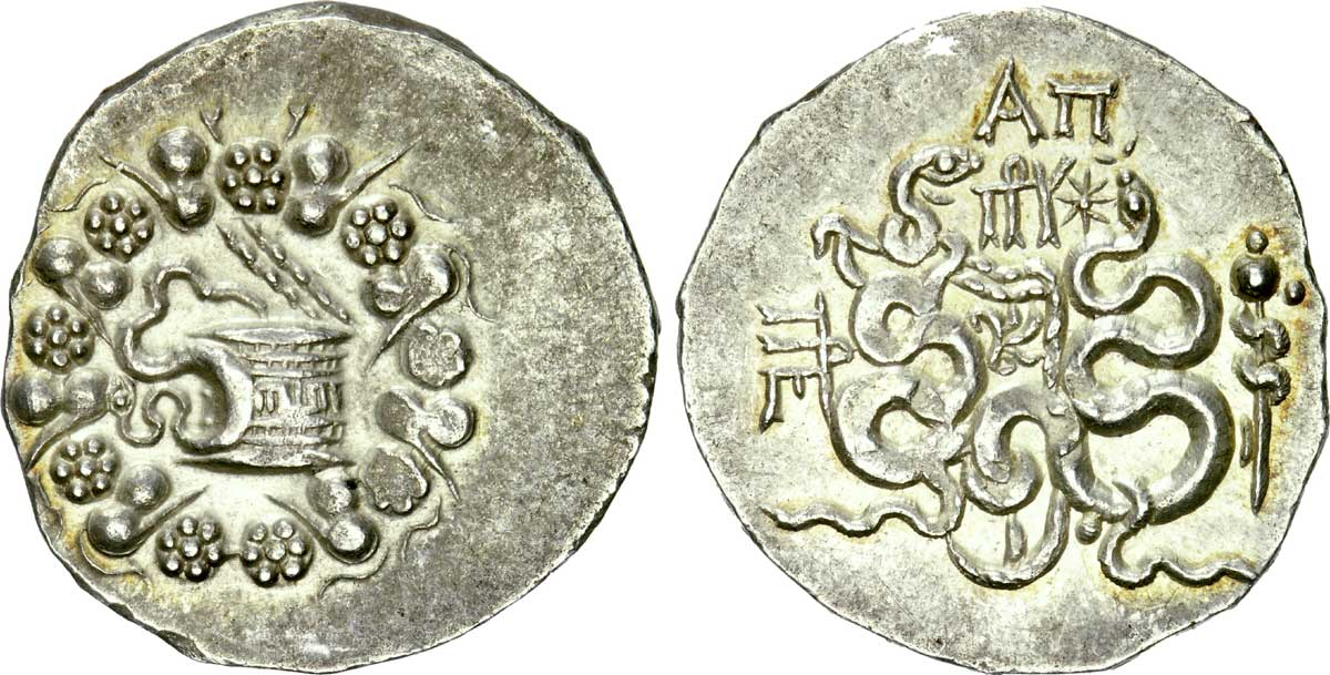 Cistophore de la cité de Pergame Date : c. 123-100 AC. Nom de l'atelier/ville : Pergame Description avers : Ciste mystique de laquelle s'échappe un serpent ; le tout dans une couronne dionysiaque . Description revers : Arc et goryte orné d'un aplustre entre deux serpents ; dans le champ à droite, le bâton d’Esculape ; au-dessus, une étoile .